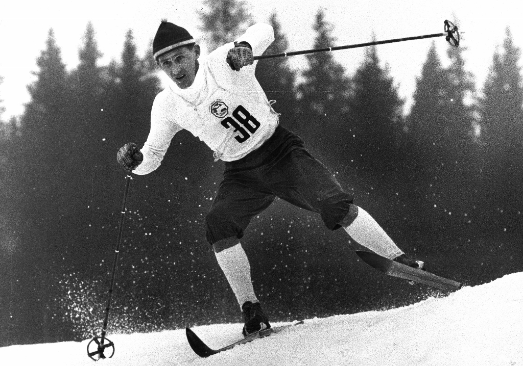 Sixten Jernberg at the Swedish cross-country skiing national championships.